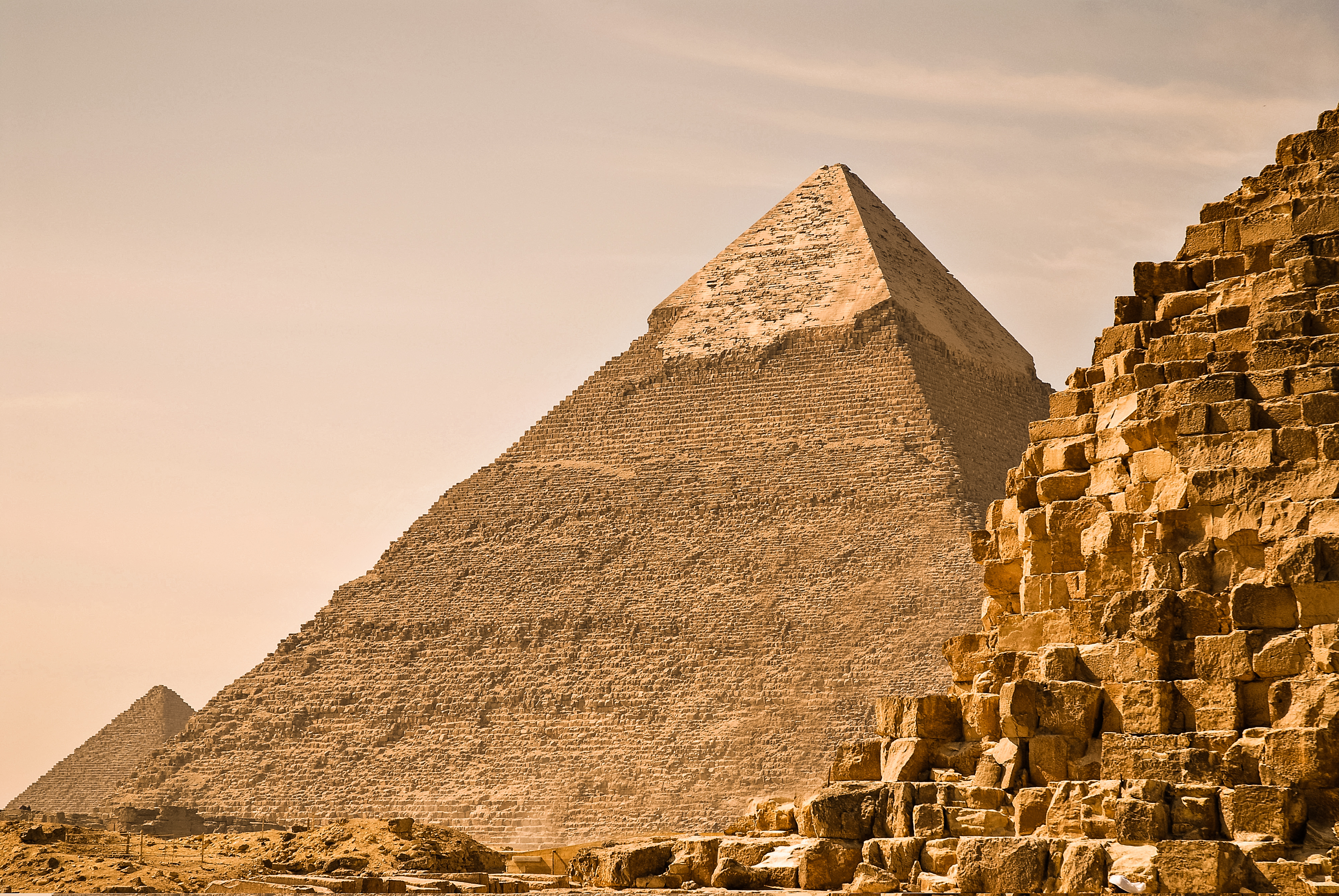 Great Pyramid of Giza (KhufuвЂ™s pyramid), Pyramid of Khafre, Pyramid of Menkaure (right to left). Giza, Cairo, Egypt, North Africa.